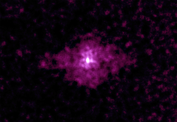 Chandra's image of 3C58, the remains of a supernova observed on Earth in 1181 AD, shows a rapidly rotating neutron star embedded in a cloud of high-energy particles. The data revealed that the neutron star, or pulsar, is rotating about 15 times a second, and is slowing down at the rate of about 10 microseconds per year.